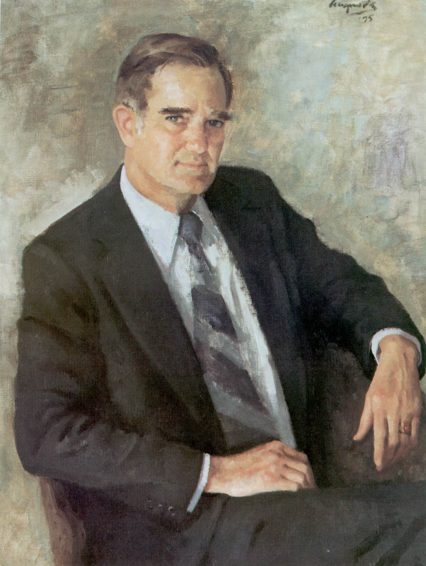 By George Augusta -Official portrait